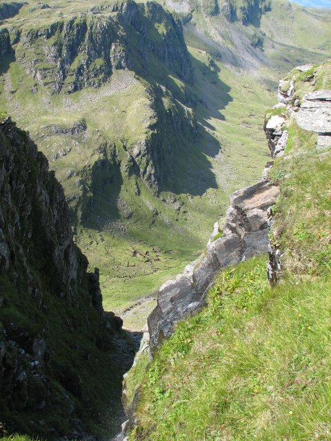 Seana Bhraigh Seana Bhraigh is a hill guarded by cliffs to its north and to its south. A small burn starts its tumbling journey to reach the River Douchary in Glen Douchary, below.